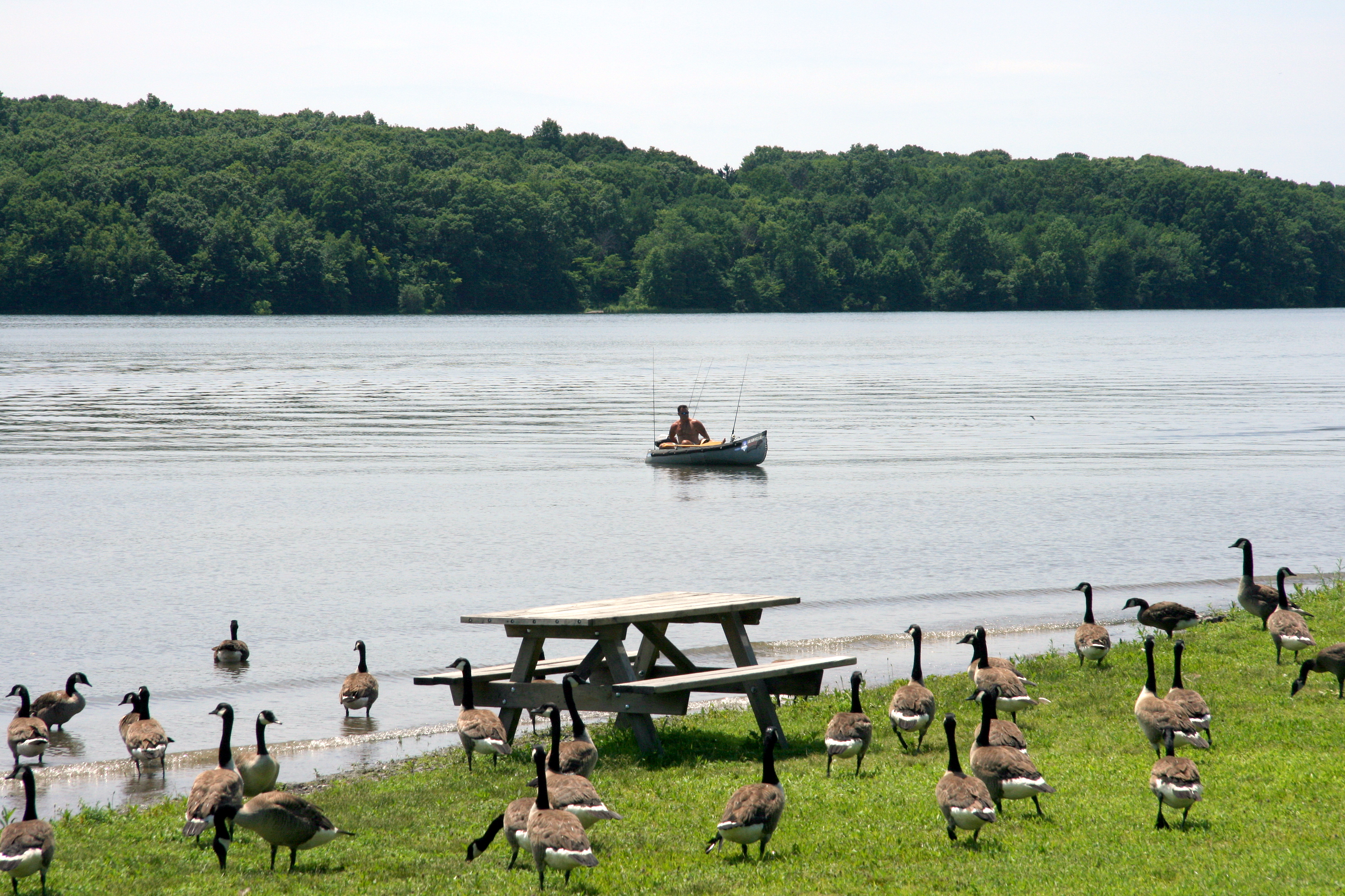 In Nockamixon State Park, which is five miles east of Quakertown and nine miles west of Doylestown in PA. Nockamixon Park 001